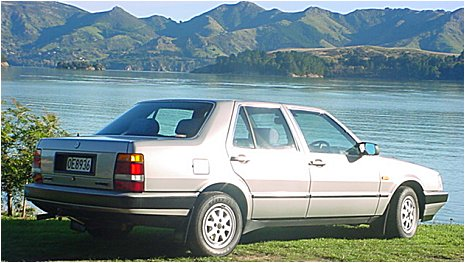 Lancia Thema 1989v6 rr34 465x263